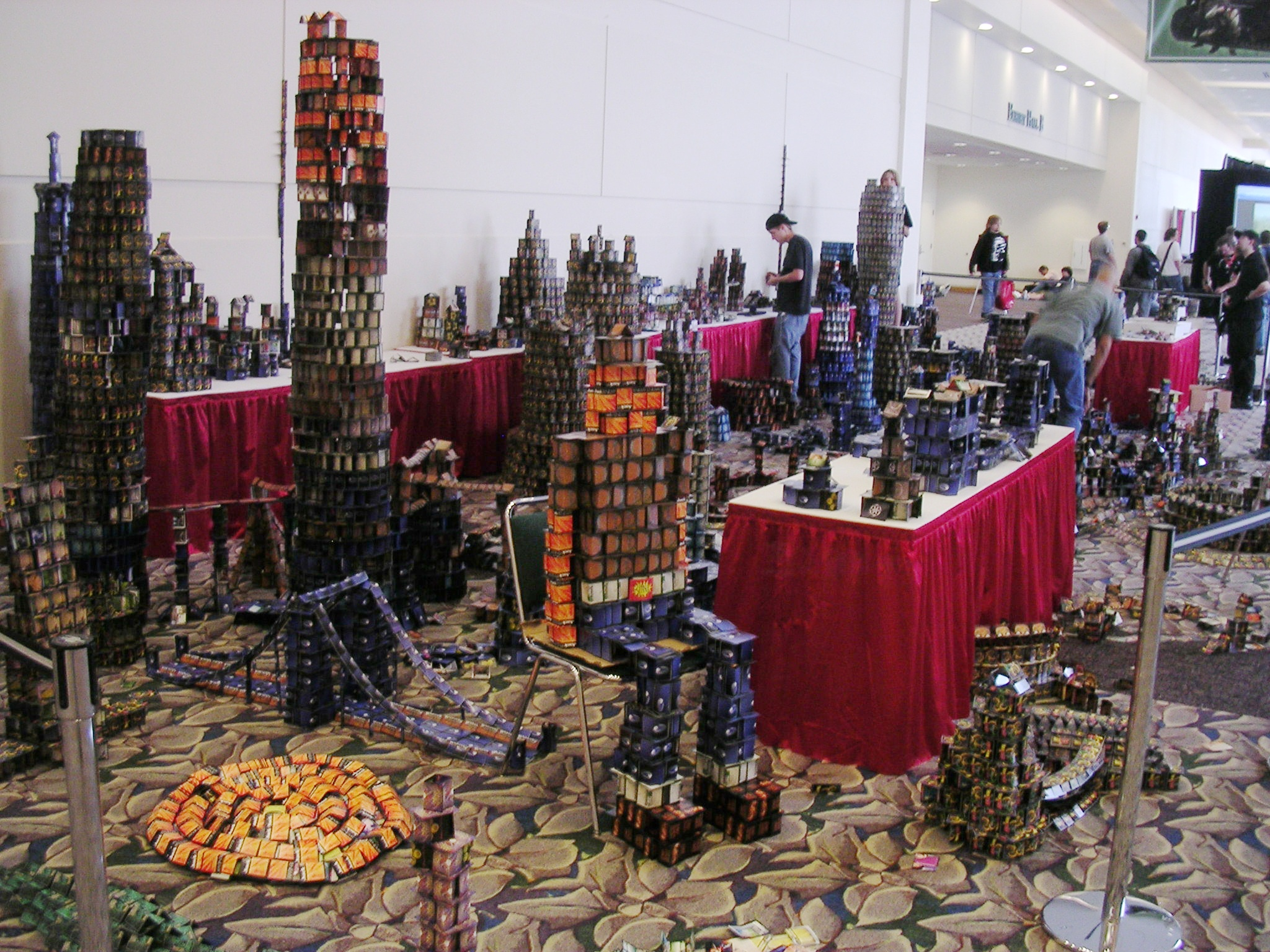 Cardhalla, photographed at Gen Con Indy on Saturday, 2005-08-20. It has been modified to lighten the image.